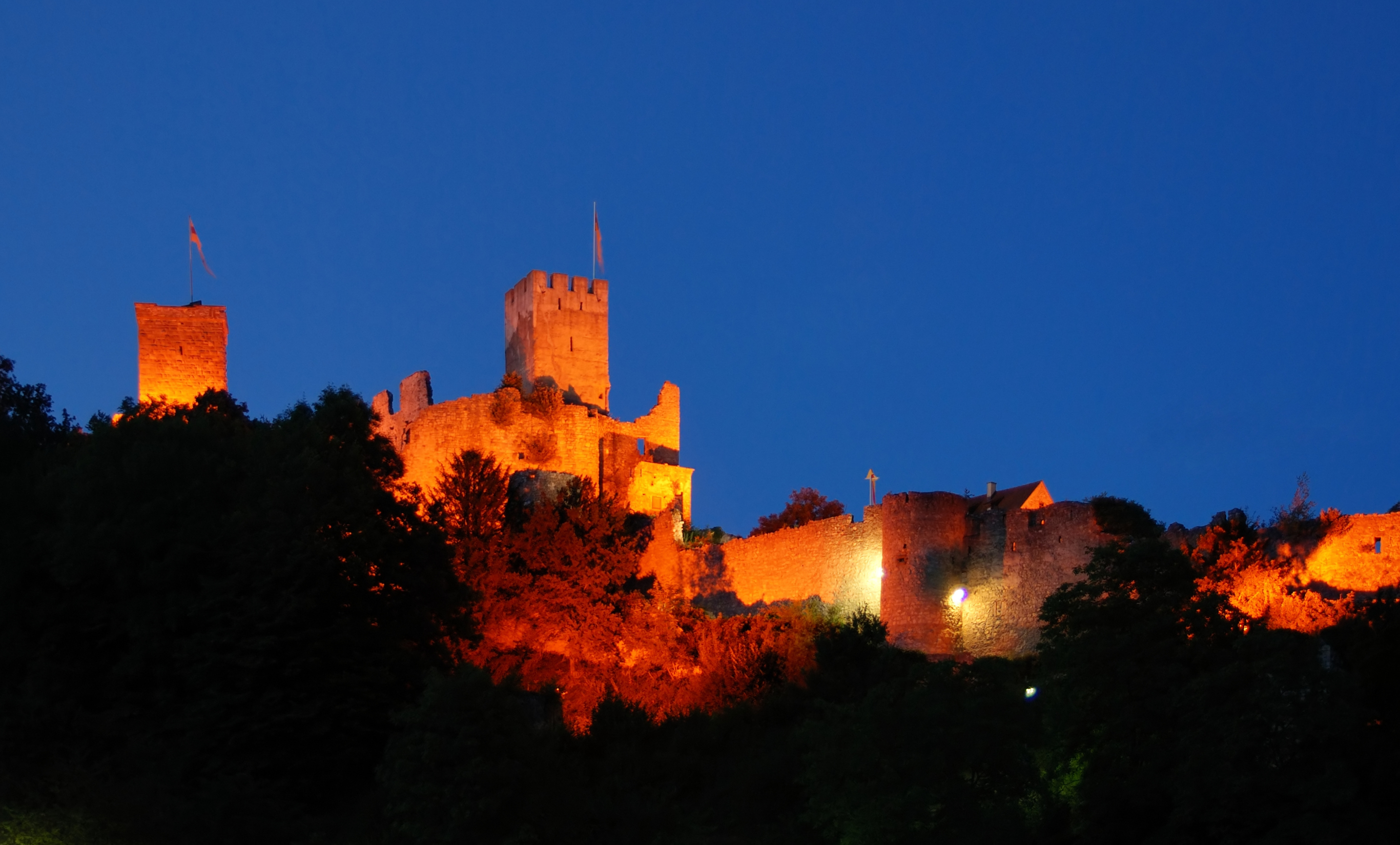 Rötteln Castle at night